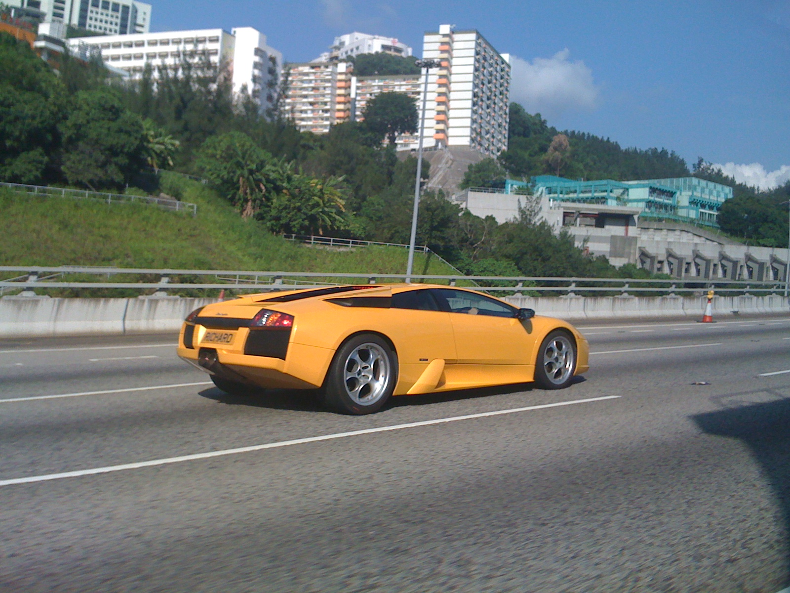 This is an old photo of Richard Eng's car taken in 2009 during a bus ride. Richard Eng was a famous educator of Hong Kong and his car model was Lamborghini Murcielago.